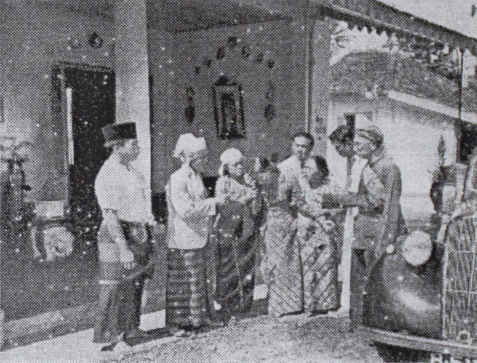 Pah Wongso in a scene from Pah Wongso Pendekar Boediman, completed by Star Film and released in April 1941.